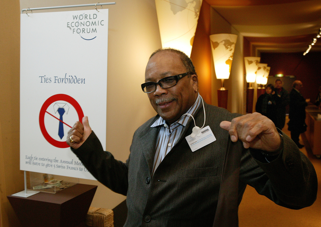 DAVOS/SWITZERLAND, 21JAN04 - Quincy Jones, Chairman and Chief Executive Officer, The Quincy Jones Listen Up Foundation, USA, takes off his ties at the entrance of the Davos Congress Center during the Annual Meeting 2004 of the World Economic Forum in Davos, Switzerland, January 21, 2004. Copyright by World Economic Forum by Andy Mettler